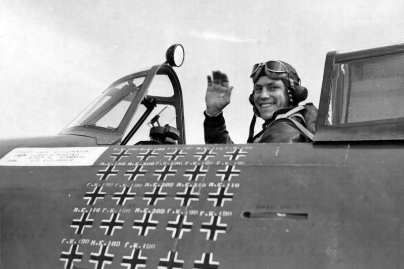 Robert S. Johnson, American World War II flying ace. Photo received 22 May 1944 from Signal Corps, released to public 26 May 1945